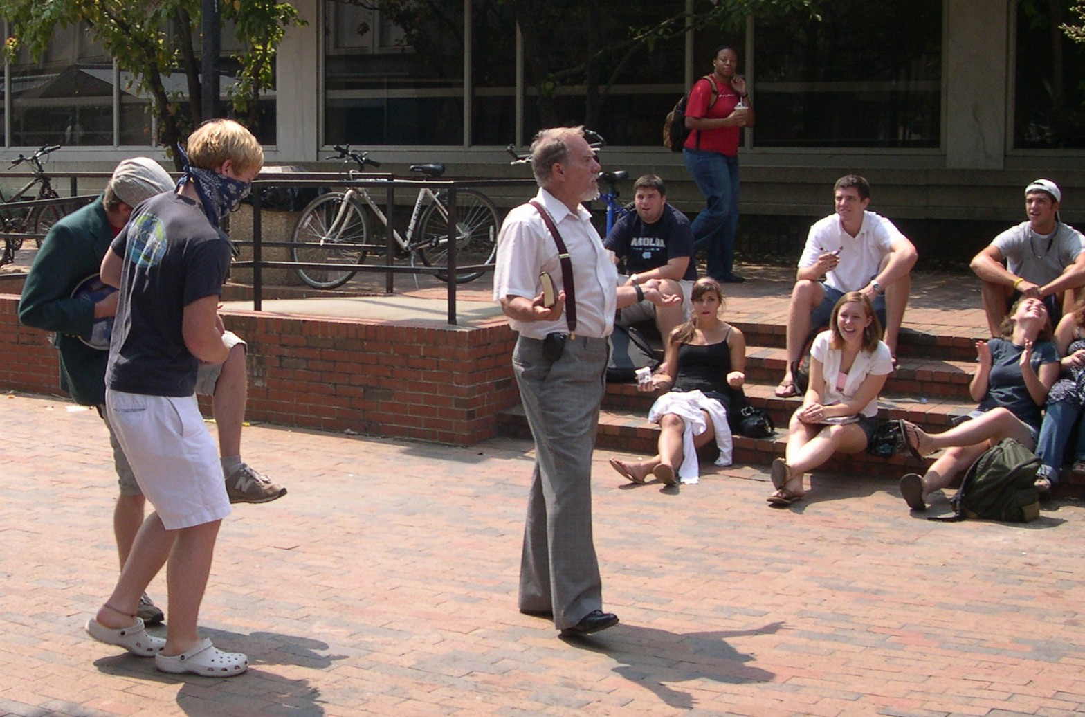 Two UNC-Chapel Hill students bothering Gary Birdsong.